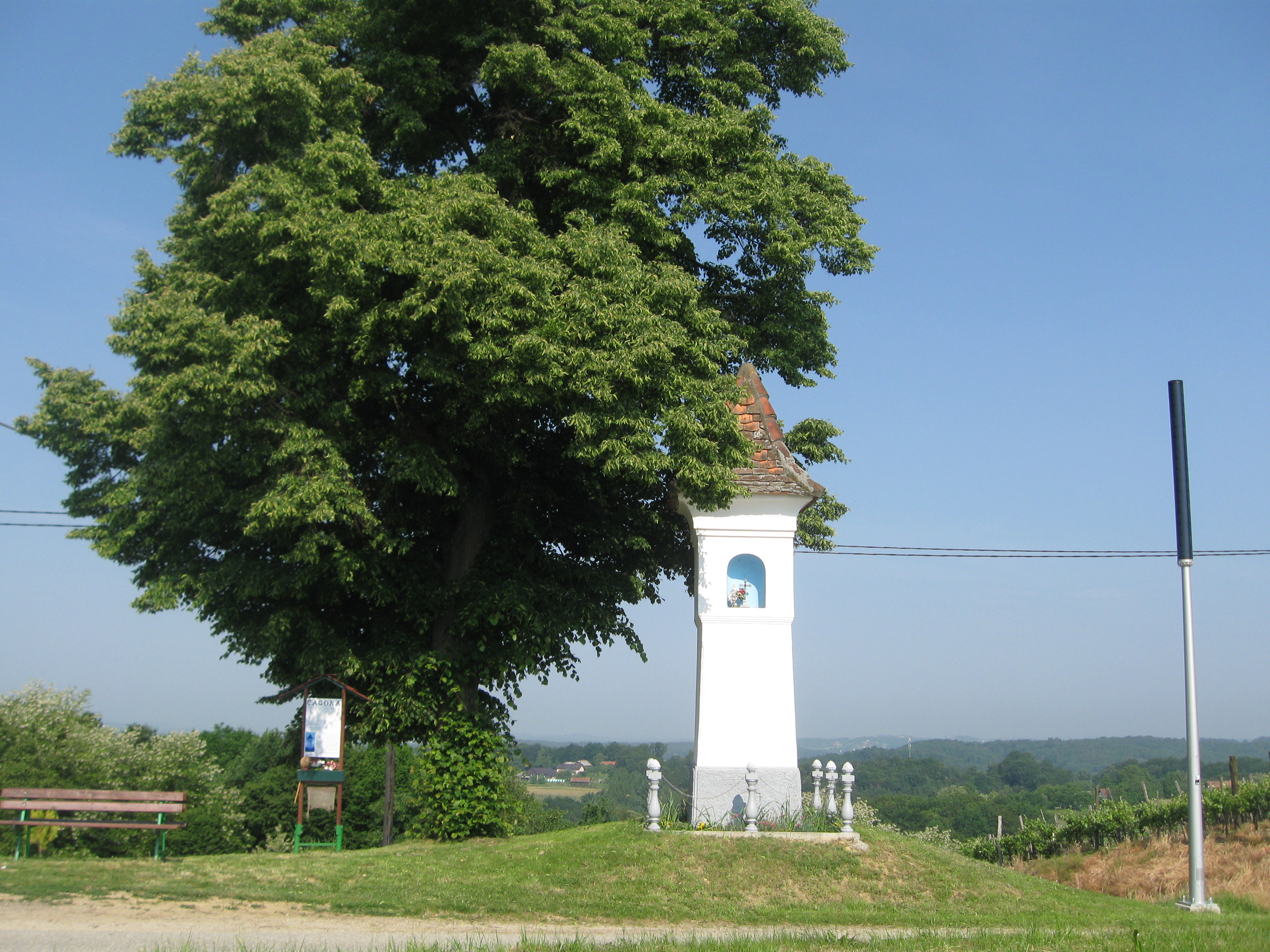 Plague columns with a lime in Čagona.